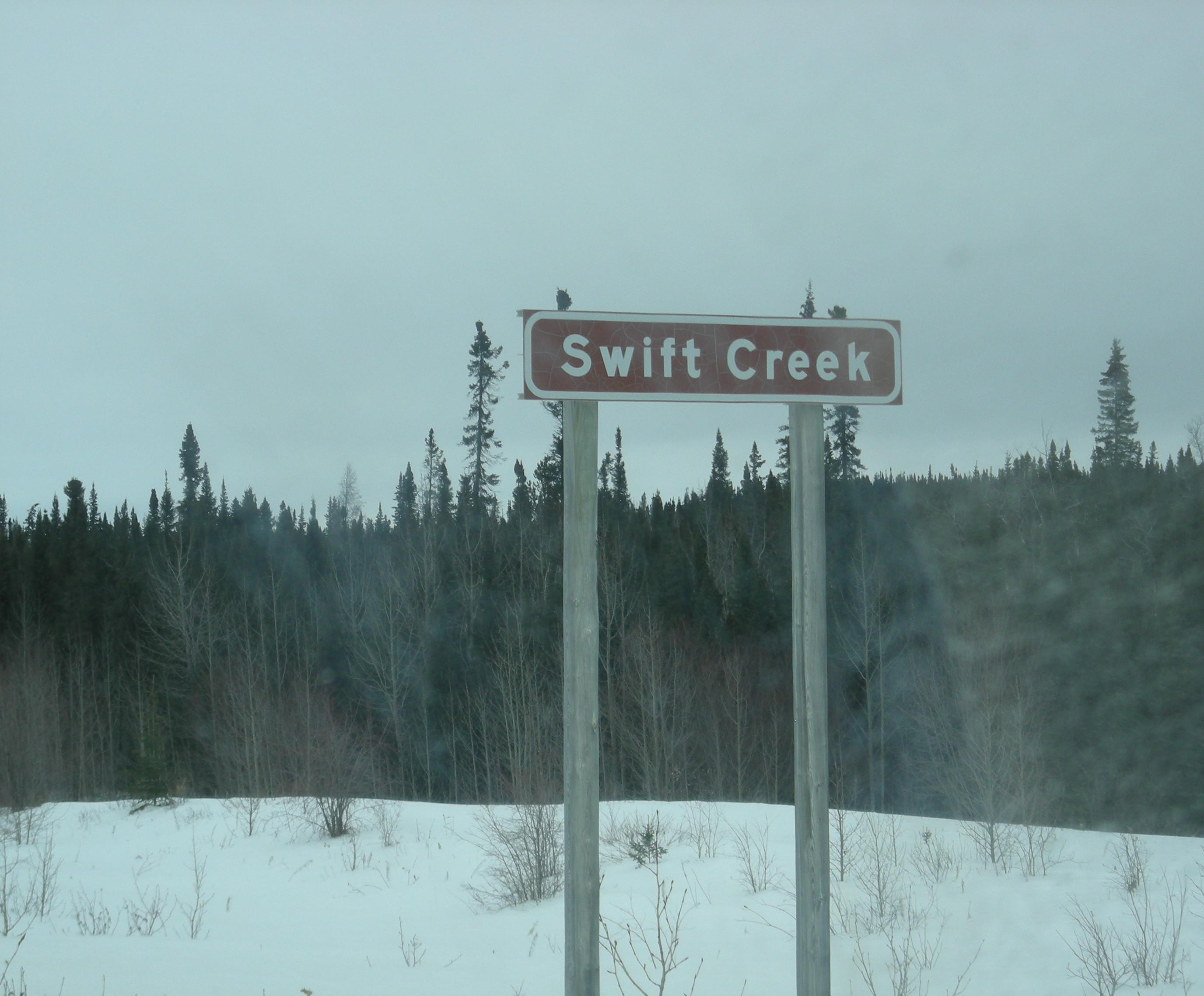 Swift Creek sign near Gillam, Manitoba